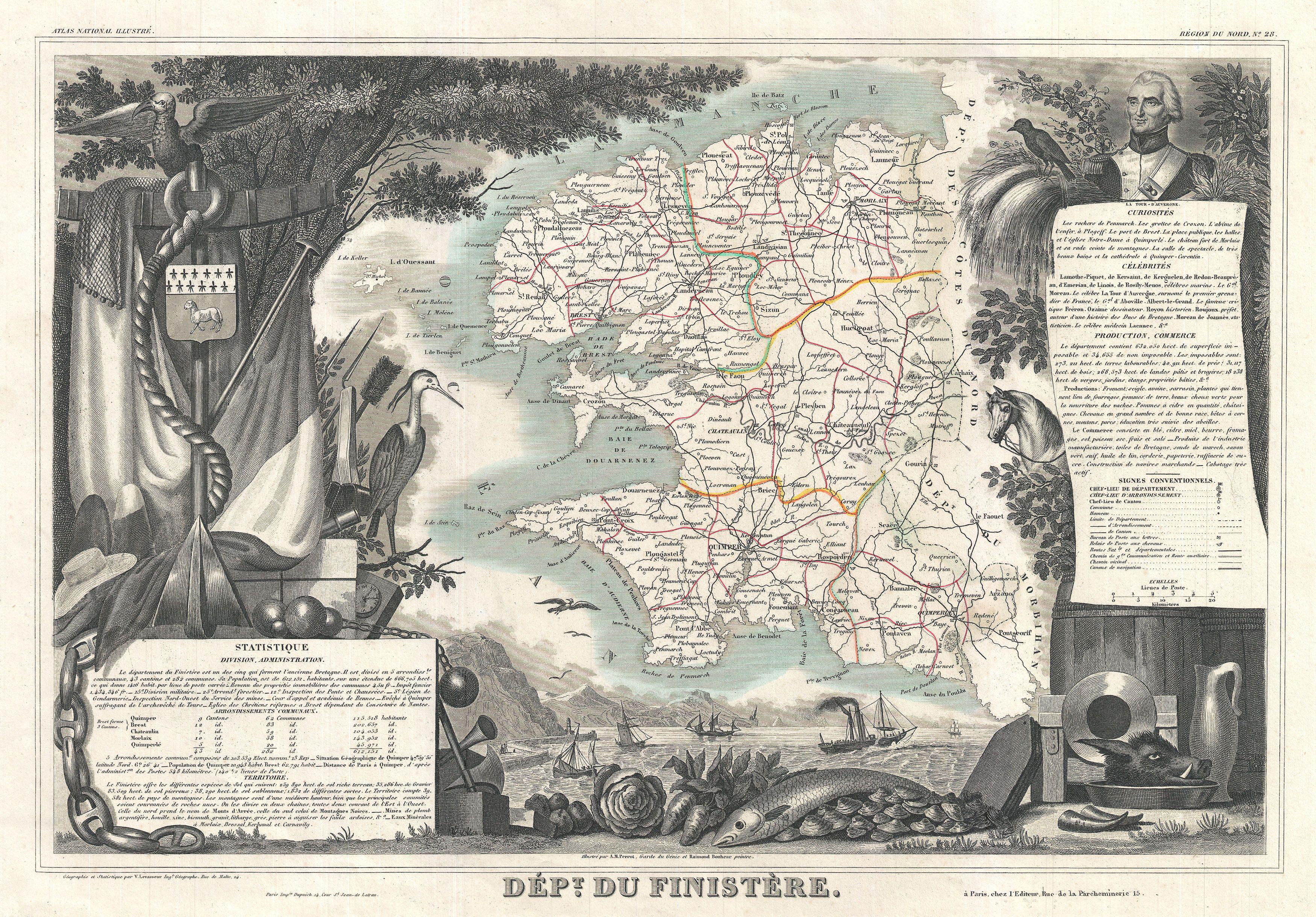 This is a fascinating 1852 map of the French department of Finistere, Brittany, France. This area of France is known for its cider production and excellent boar hunting. The map also includes the island of Ouessant, which marks the north-westernmost point of European France. The dramatic island and castle of Mont Saint-Michel is depicted just of the coast. B The whole is surrounded by elaborate decorative engravings designed to illustrate both the natural beauty and trade richness of the land. There is a short textual history of the regions depicted on both the left and right sides of the map. Published by V. Levasseur in the 1852 edition of his "Atlas National de la France Illustrée".